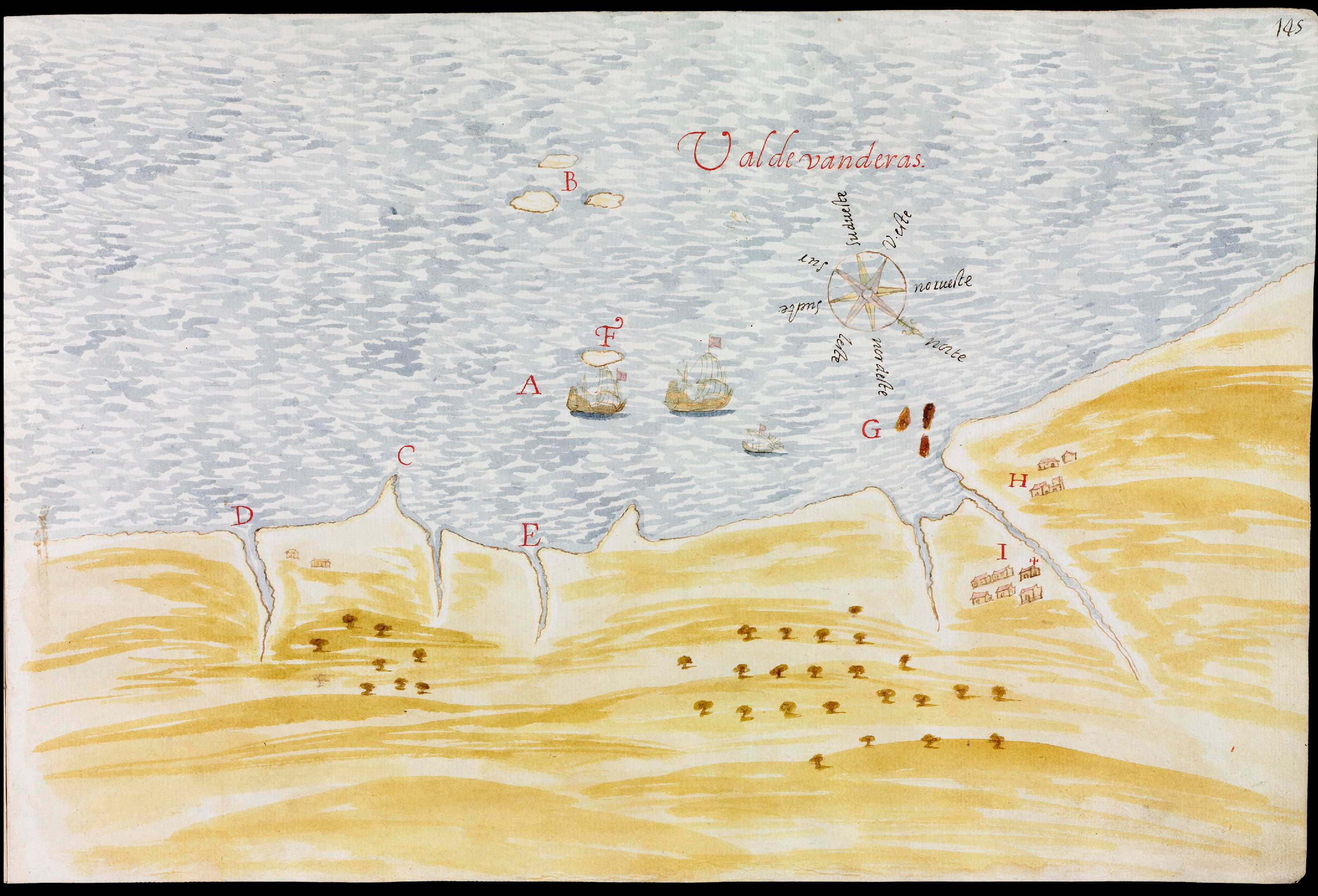 Spanish manuscript map of 1632 of the Valle de Vanderas ("Valley of Flags", nowadays Bahía de Banderas, Mexico). Page 145 of the Descripciones geográphicas e hydrográphicas de muchas tierras y mares del Norte y Sur en las Indias, en especial del descubrimiento del Reino de la California (Geographic and hydrographic descriptions of many northern and southern lands and seas in the Indies, specifically the discovery of the kingdom of California), written by captain Nicolás de Cardona after his expedition of 1614.